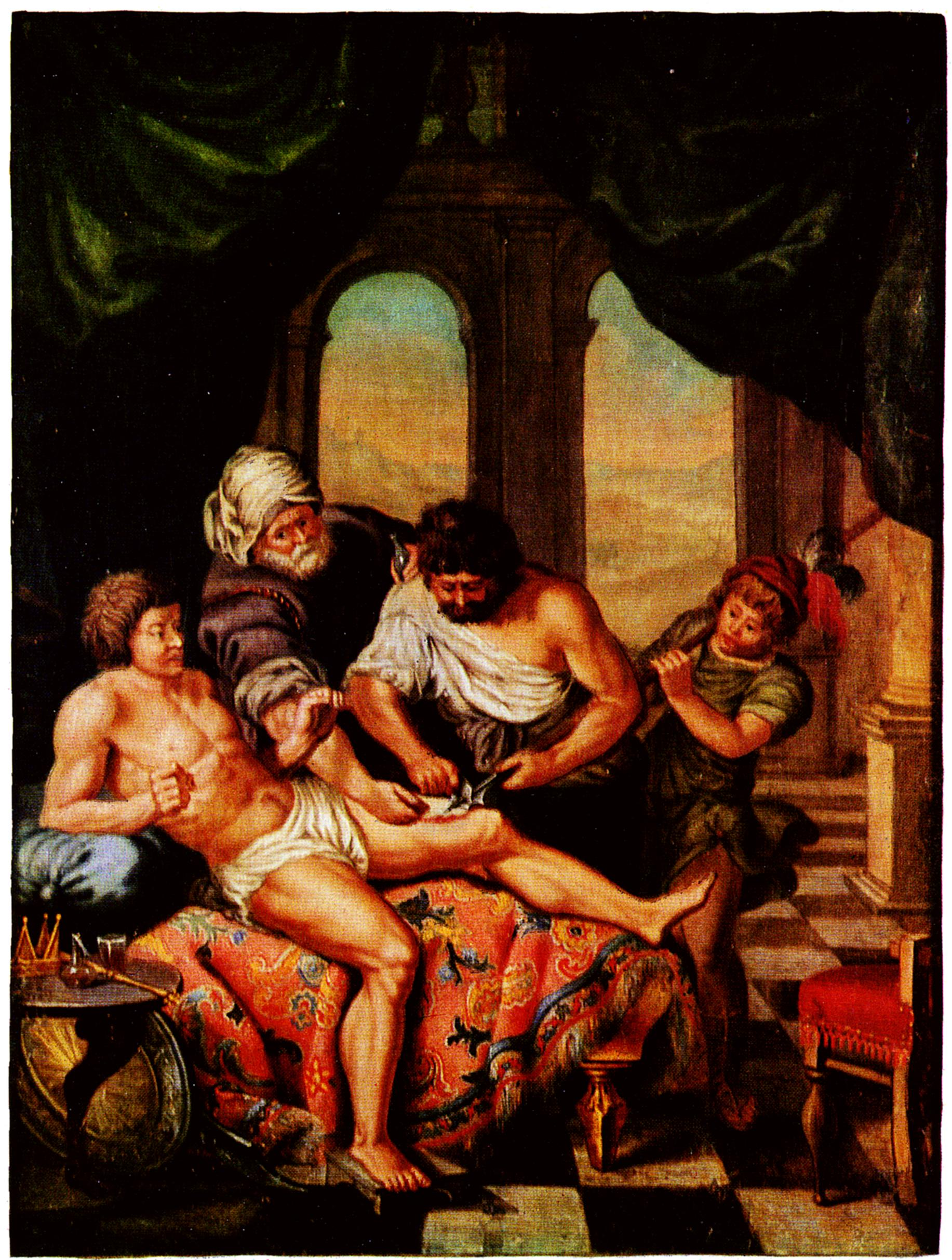 Wound treatment. The wound of a young prince is treated with grits (small metal cuttings) from his own lance - likely in the belief to avoid infection